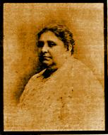 Rita Cetina Gutiérrez, Mexican educator. Founder of "La Siempreviva"